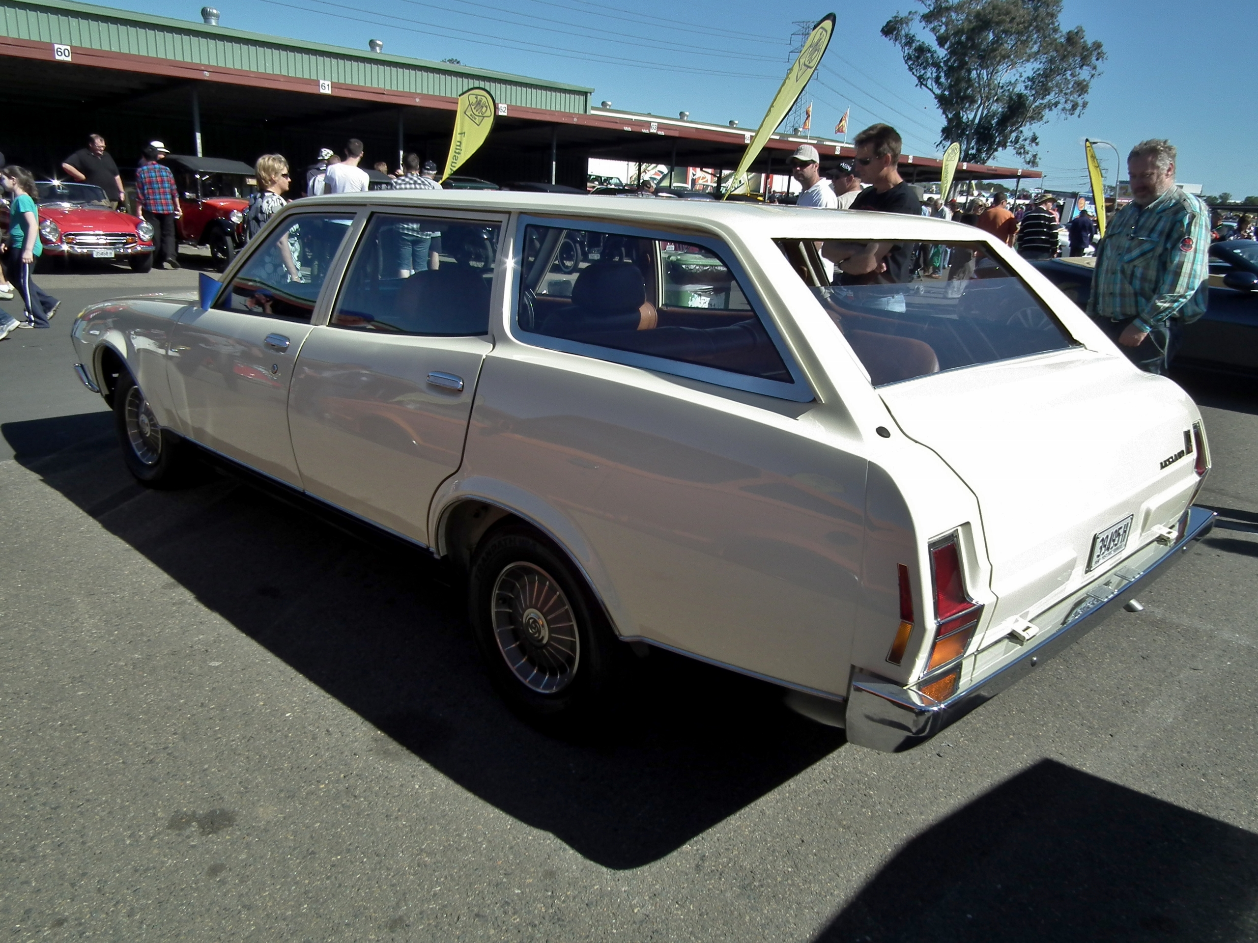 1974 Leyland P76 Super station wagon prototype. This is the only prototype P76 station wagon built by Leyland Australia. Production of the P76 ceased before station wagon production could commence. Taken at the 2013 Shannon's Eastern Creek Classic display day, held at Sydney Motorsport Park.